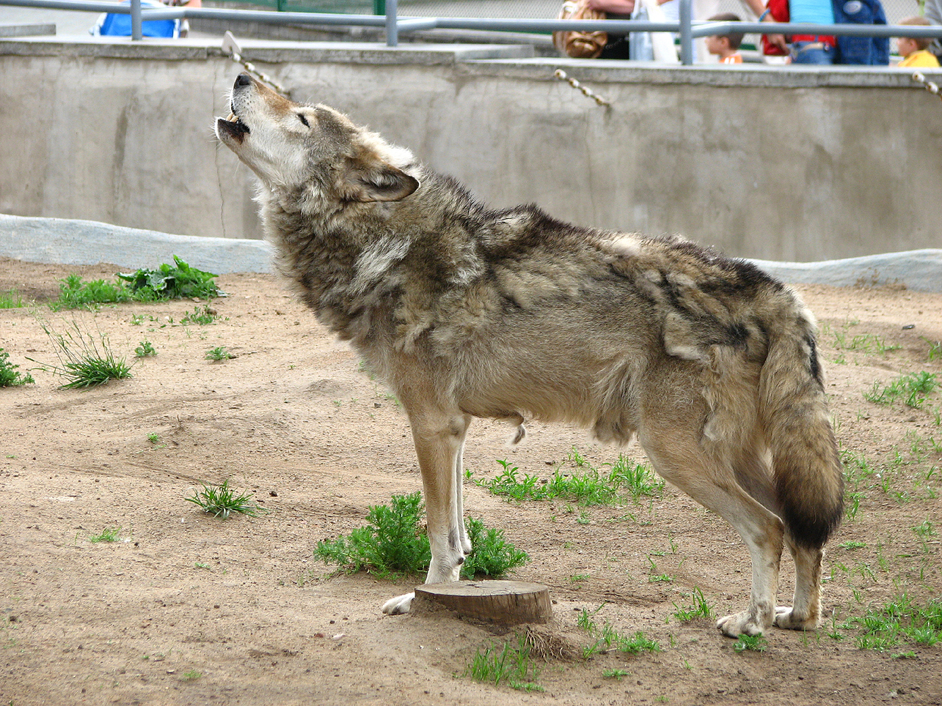 Howling wolf, in a moult stage (Canis lupus). The Moscow zoo